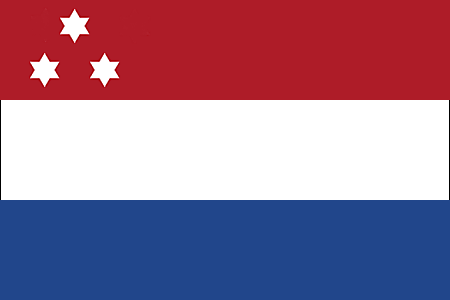 Royal Netherlands Navy flag ("onderscheidingsvlag") for the rank of "vice-admiraal". Not to be confused with the command flag.